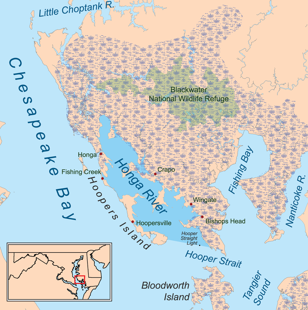 This map shows the Honga River, it was made using the National Hydrography Dataset. USGS topographic quad maps used as reference.